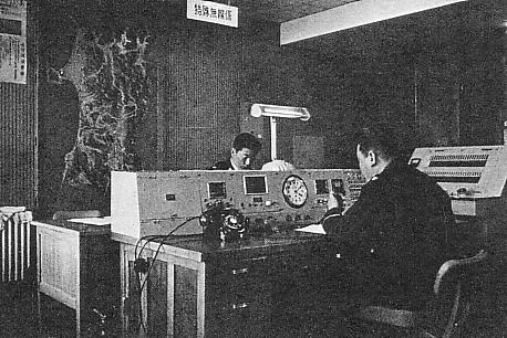 NRP(National Rural Police) Akita control room